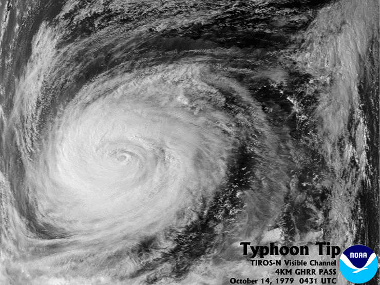 US Gov't images in public domain.